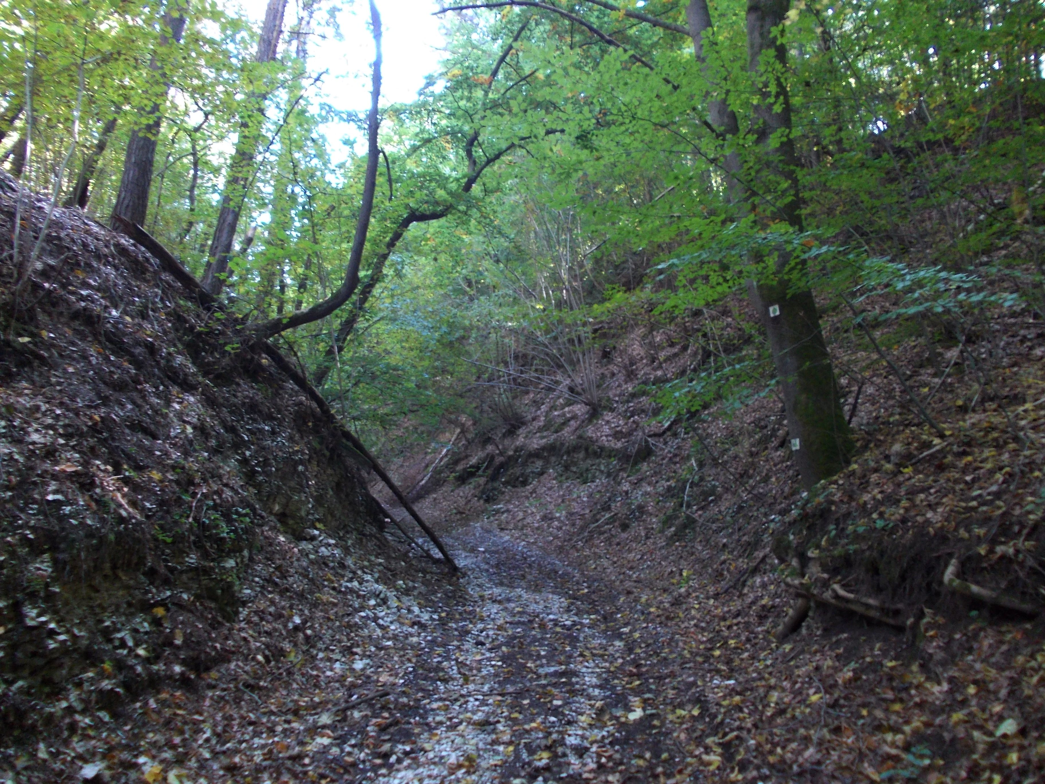 Defile in the Alter Stolberg hills between Steigerthal and the stone 100